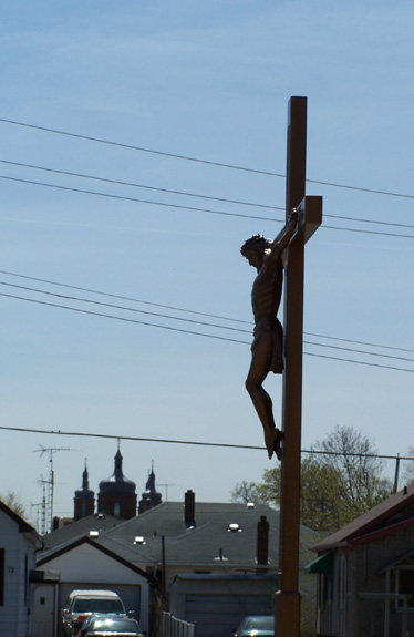 Taken by User:Trappy, April 20, 2006. A large crucifix on Oblale Street in St. Catharines Ontario, with the Polish Church.